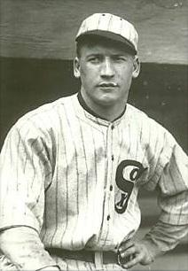 1919 photo of Oscar "Happy" Felsch, public domain.